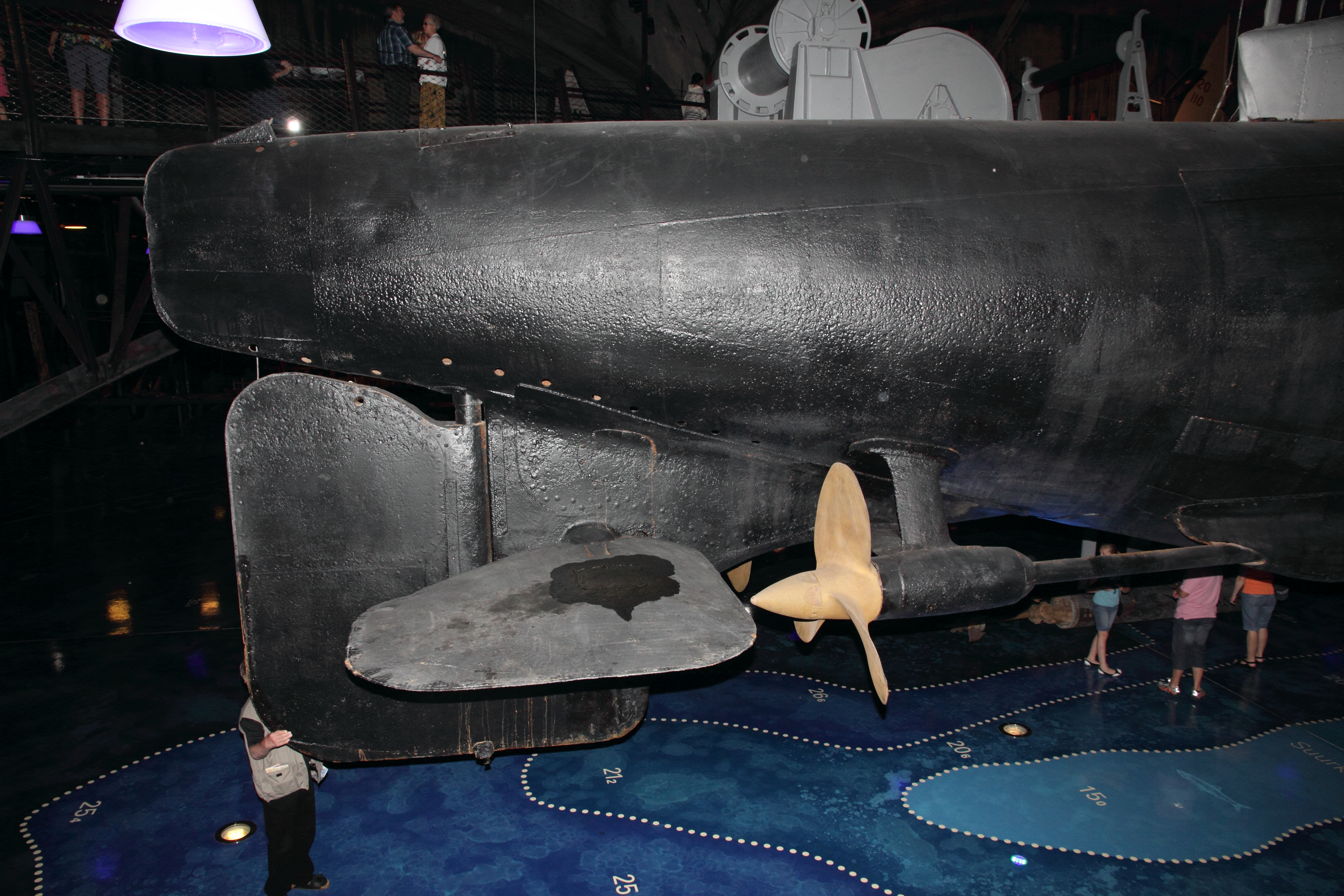 Rudder and propellers of the Estonian museum submarine Lembit in Lennusadam seaplane hangar at the Estonian maritime museum.